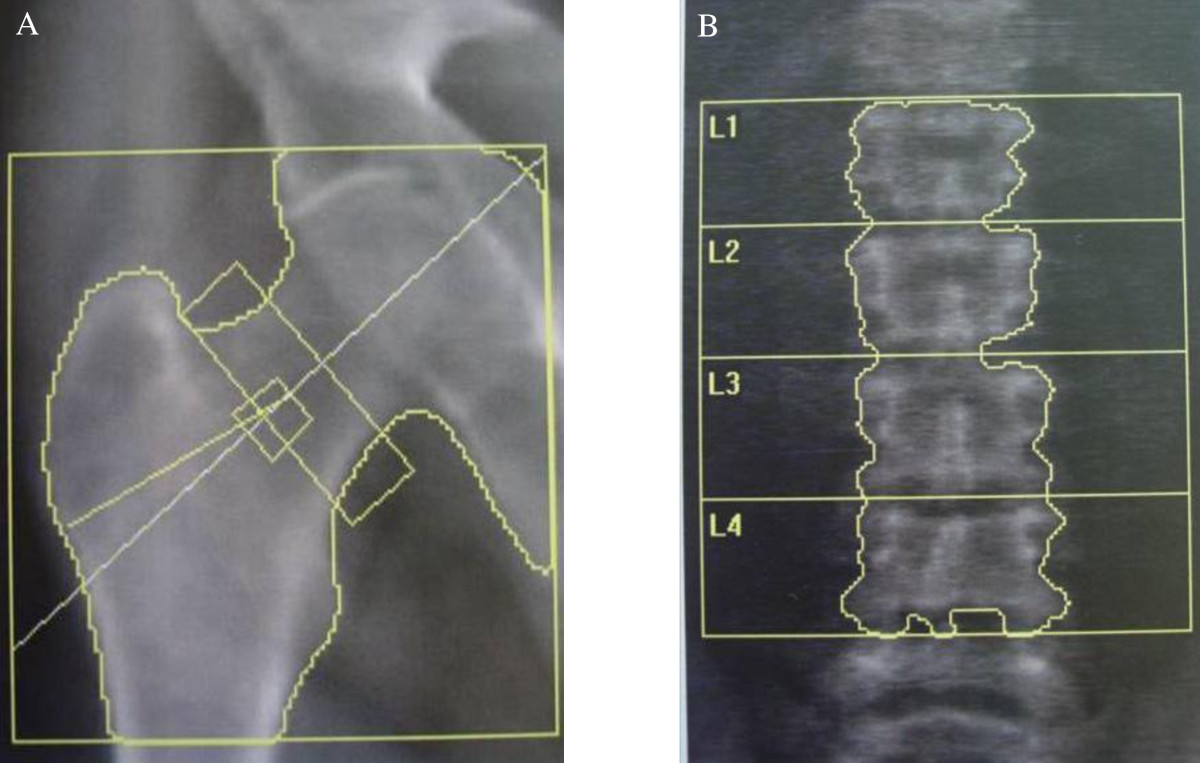 Dual-energy X-ray absorptiometry (DEXA) assessment of bone mineral density of the femoral neck (A) and the lumbar spine (B): T scores of - 4.2 and - 4.3 were found at the hip (A) and lumbar spine (B), respectively in a 53 year-old male patient affected with Fabry disease. Courtesy: Dr Caroline LEBRETON, CHU Raymond Poincaré, Garches, France.